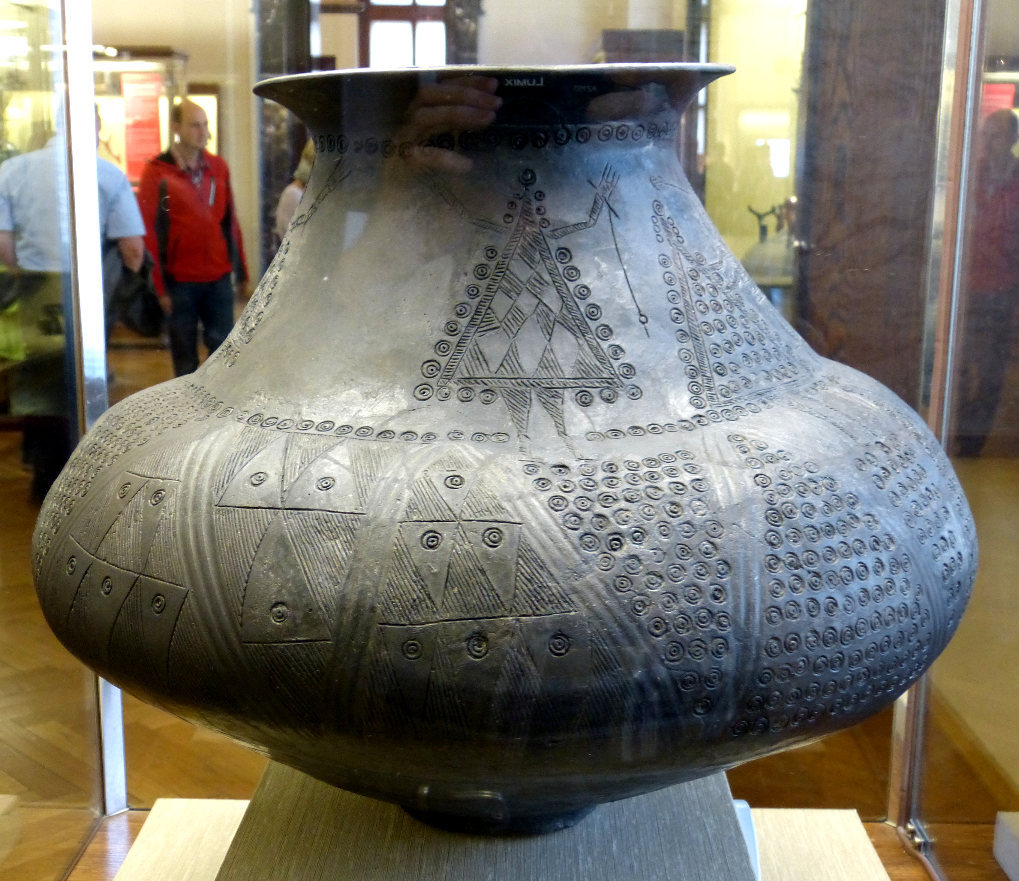 Natural History Museum, Vienna ( Austria ). Hallstatt culture pottery ( 7th century BC ) from Sopron ( Hungary ).